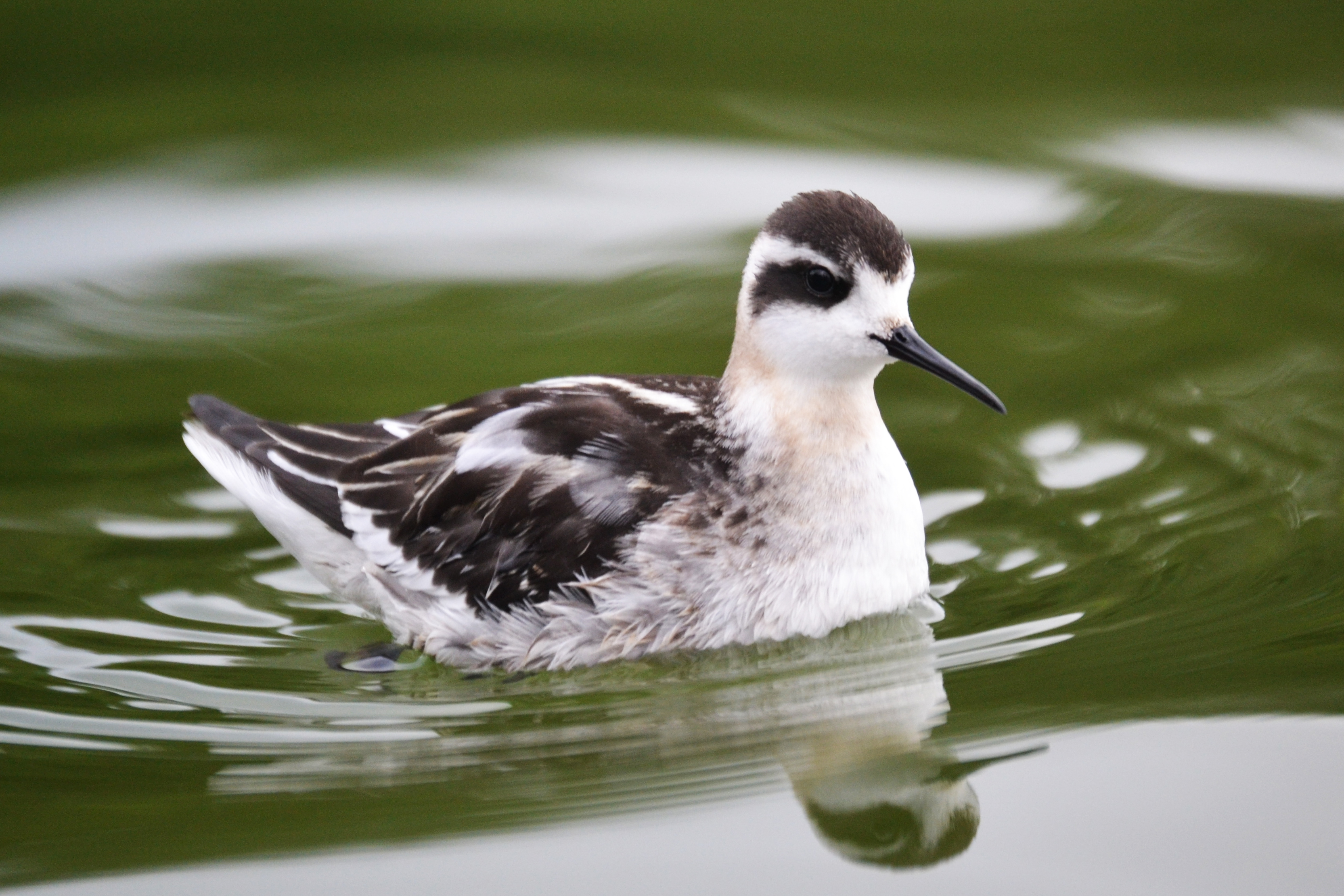 Eden Park, Cincinnati, Ohio